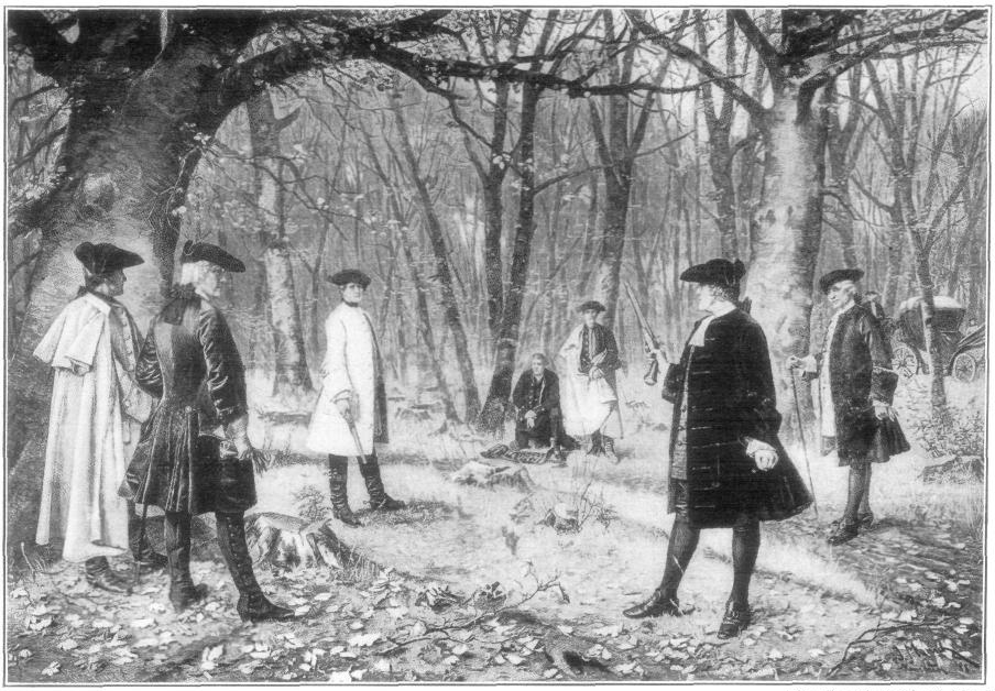 Illustration, "Duel between Alexander Hamilton and Aaron Burr. After the painting by J. Mund." The duel took place in Weehawken, New Jersey on July 11, 1804. Note: possibly due to artistic license and the problems of perspective and canvas size etc, the duellists are standing at an unusually short distance from each other. However, it is known that some duels did indeed take place at very short distances such as this, though most were fought where the opponents were standing approximately 50 feet apart. The protagonists are dressed in anachronistic 18th century dress, not the common fashion of the early 19th century.